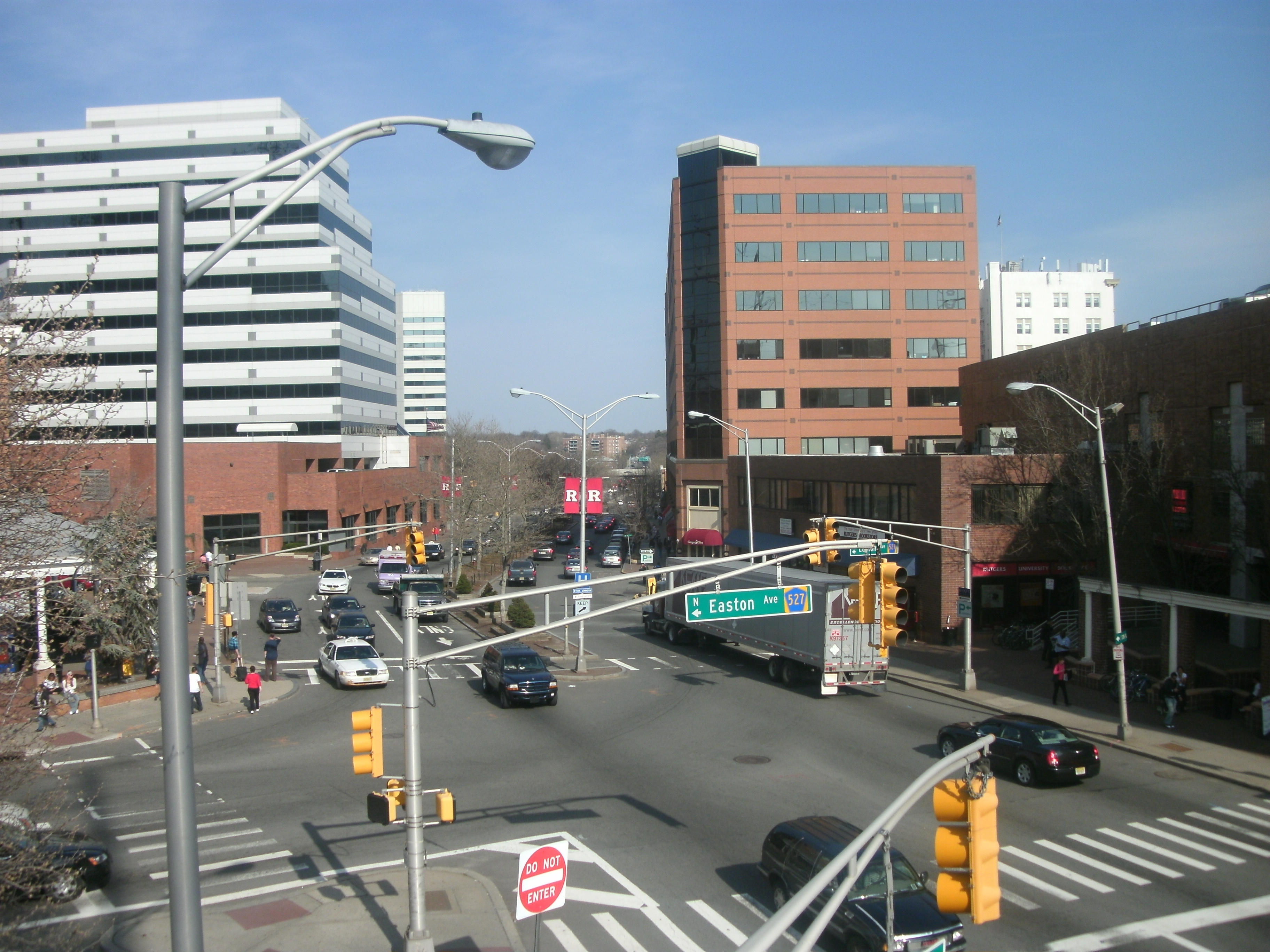 Facing northbound on New Jersey Route 27 in New Brunswick, New Jersey at the junction with County Route 527 (Easton Avenue).